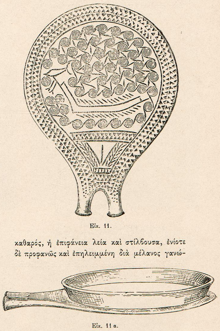 Cycladic pan, National Archaeological Museum Athens, inventary # 4974